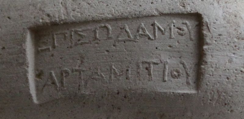 Inscribed vessel from Gordion, bearing the name of a Phrygian called Episodamos.